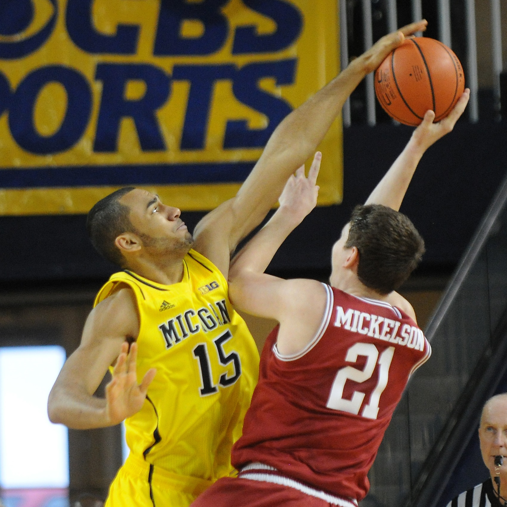 Jon Horford of the w:2012–13 Michigan Wolverines men's basketball team